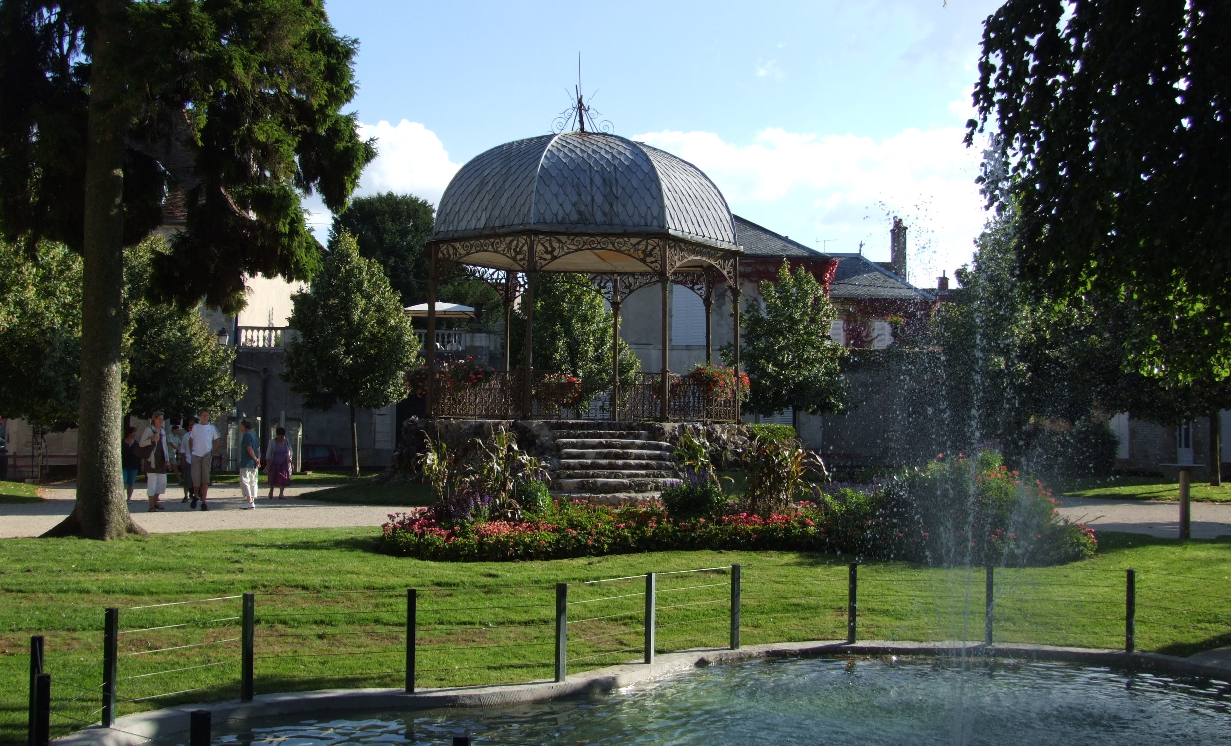 Langres, FRANCE